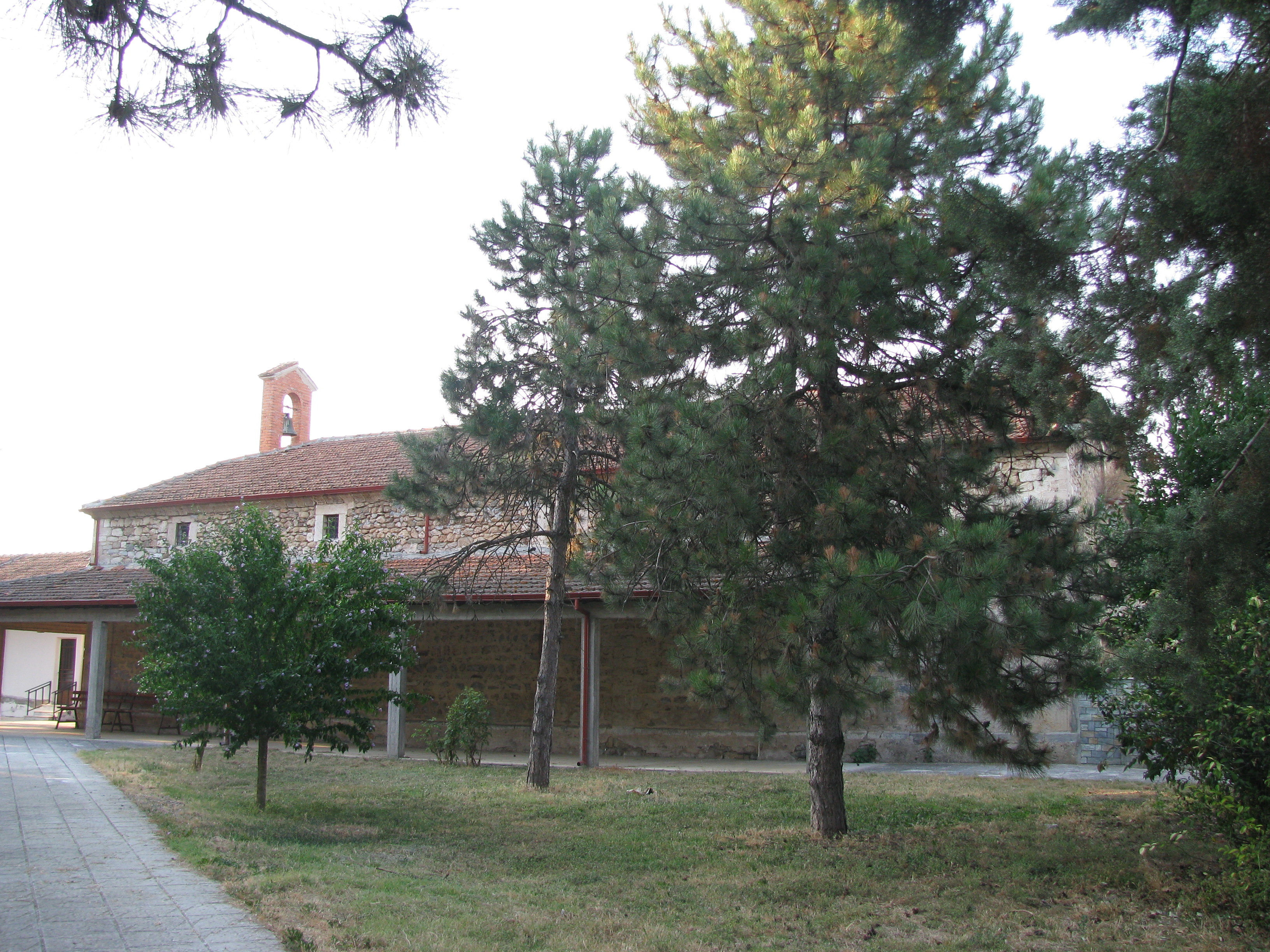 Church St. Atanas in Vadrishta, Aegean Macedonia